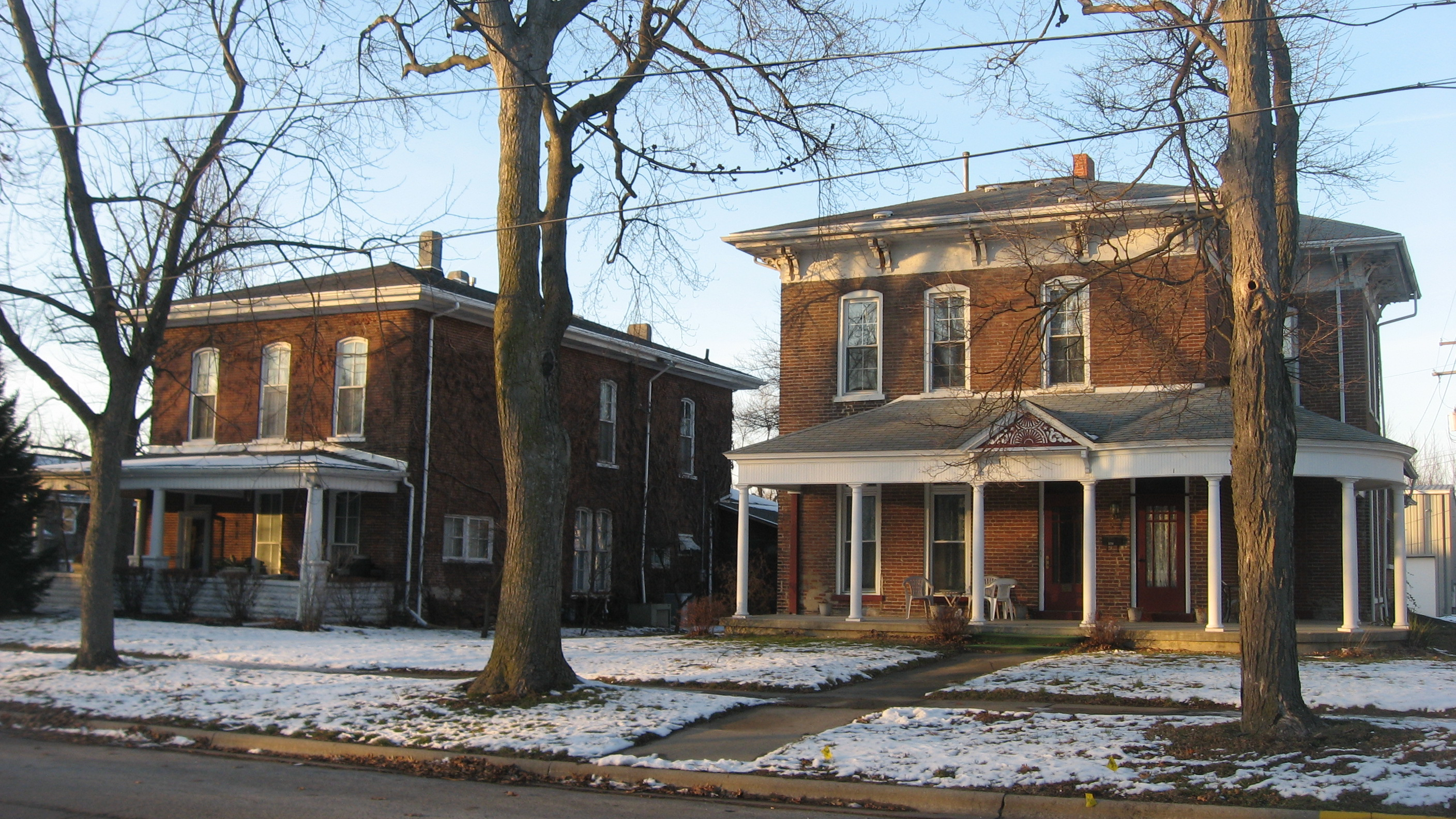 Houses at 503 and 509 E. Fort Wayne Street in Warsaw, Indiana, United States. Built in 1870, they are part of the East Fort Wayne Street Historic District, a historic district that is listed on the National Register of Historic Places.